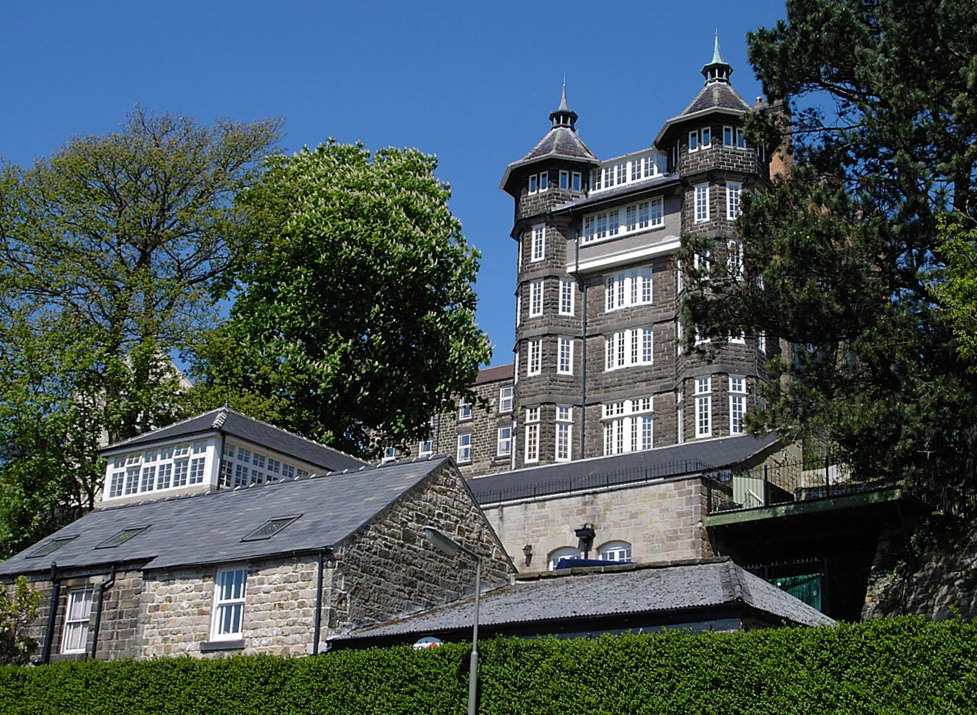 Matlock - Rockside Hall from top of Bank Road